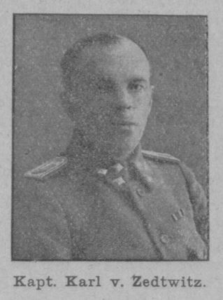 The Austrian corporal Karl Müller who enlisted the White Army during the 1918 Finnish Civil War claiming to be the Oberleutnant Karl von Zedtwitz zu Hackenbach. Müller was promoted to captain before his real identity was revealed.